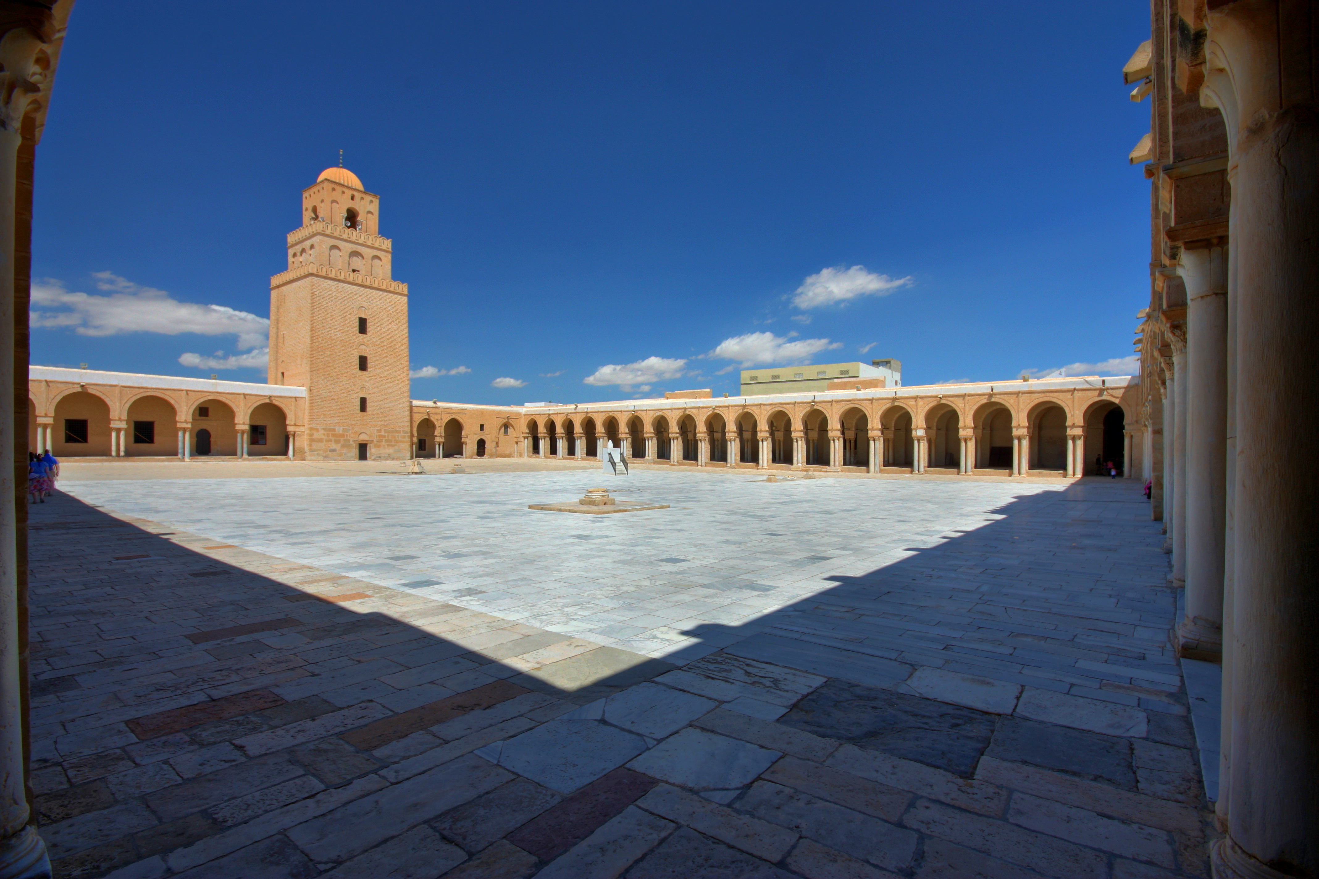 Overview of the courtyard of the Great Mosque of Kairouan, also called Mosque of Uqba, in Tunisia.